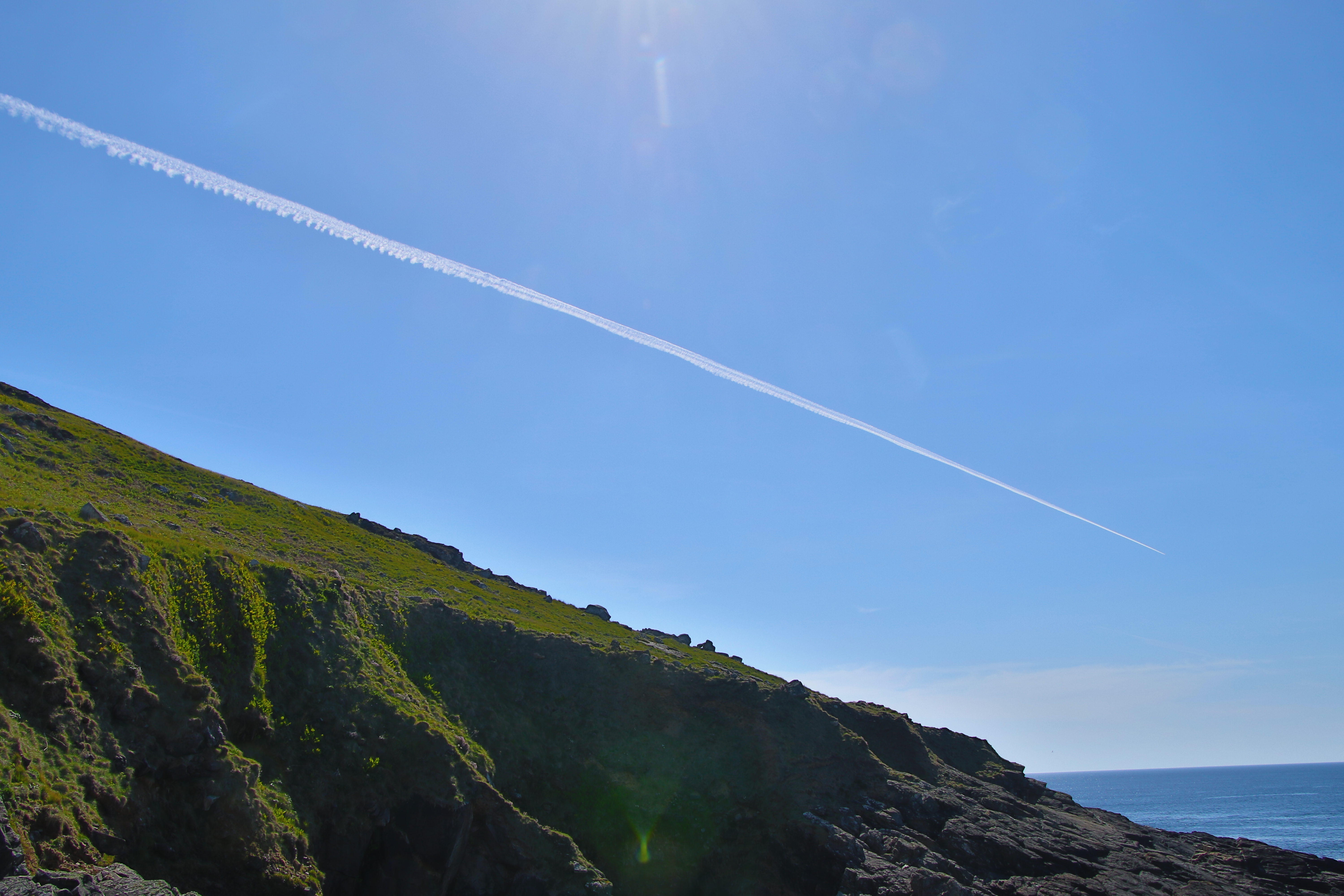 The contrail of an airplane over the coast of West Cornwall, UK This photo was taken by Tom Corser and is © Tom Corser 2020. This photo may be reproduced under the terms of the Creative Commons Attribution-ShareAlike 3.0 Unported Licence [1] (unless otherwise stated). Please credit this photo Tom Corser If using this photo, make sure you properly credit and specify the licence that this photo is licensed under. (E.g. "Photo by Tom Corser Licensed under Creative Commons Attribution-ShareAlike 3.0 Unported Licence: If you would like to use this photo under a different license, please contact me via or . Attribution: Tom Corser